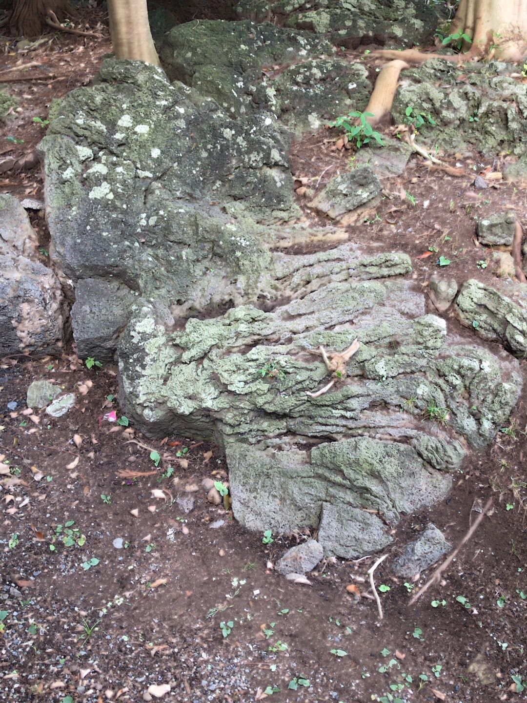 Processed with MOLDIV